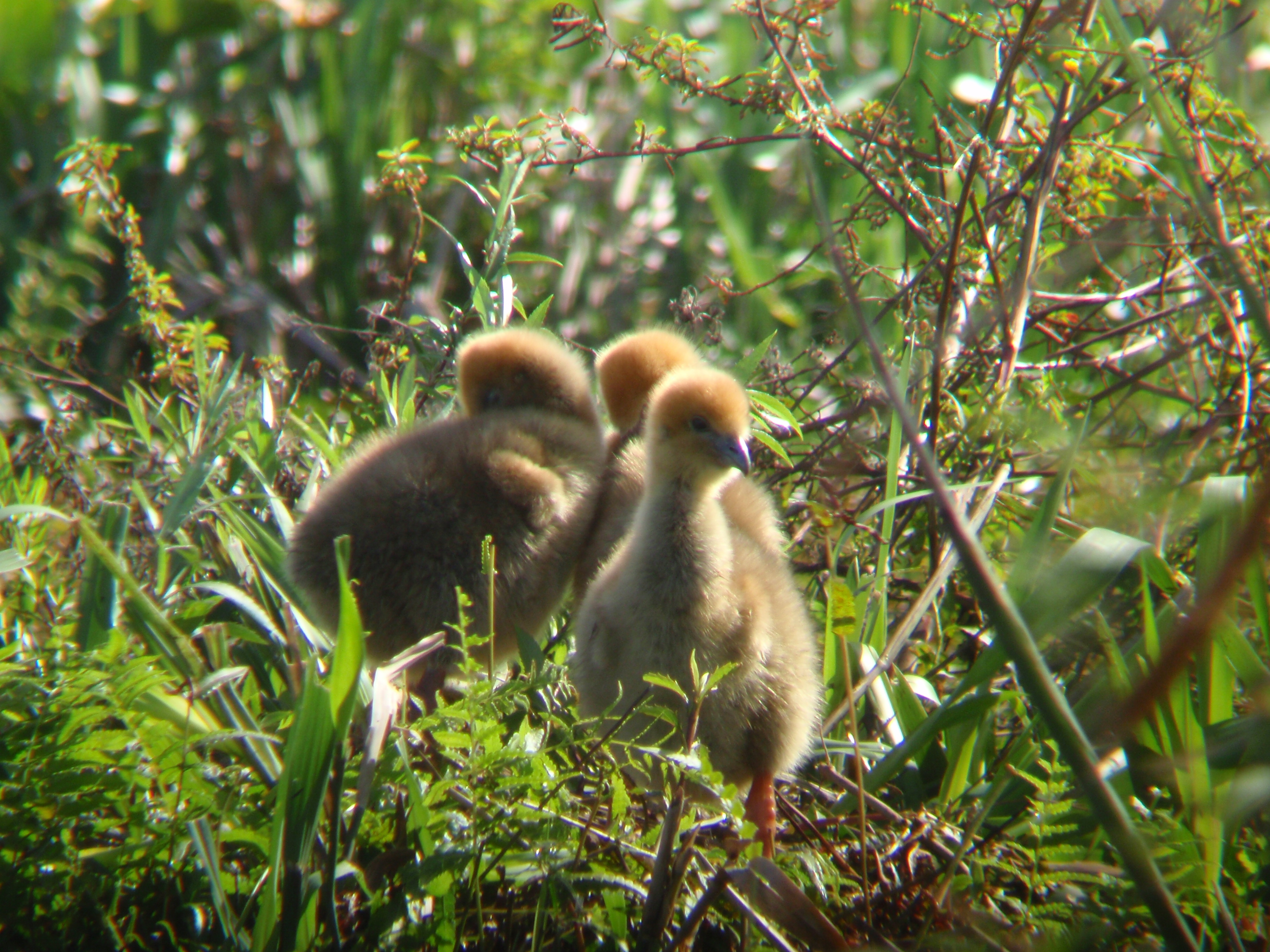 Baby Southern Screamers in the Esteros del Ibera, Argentina